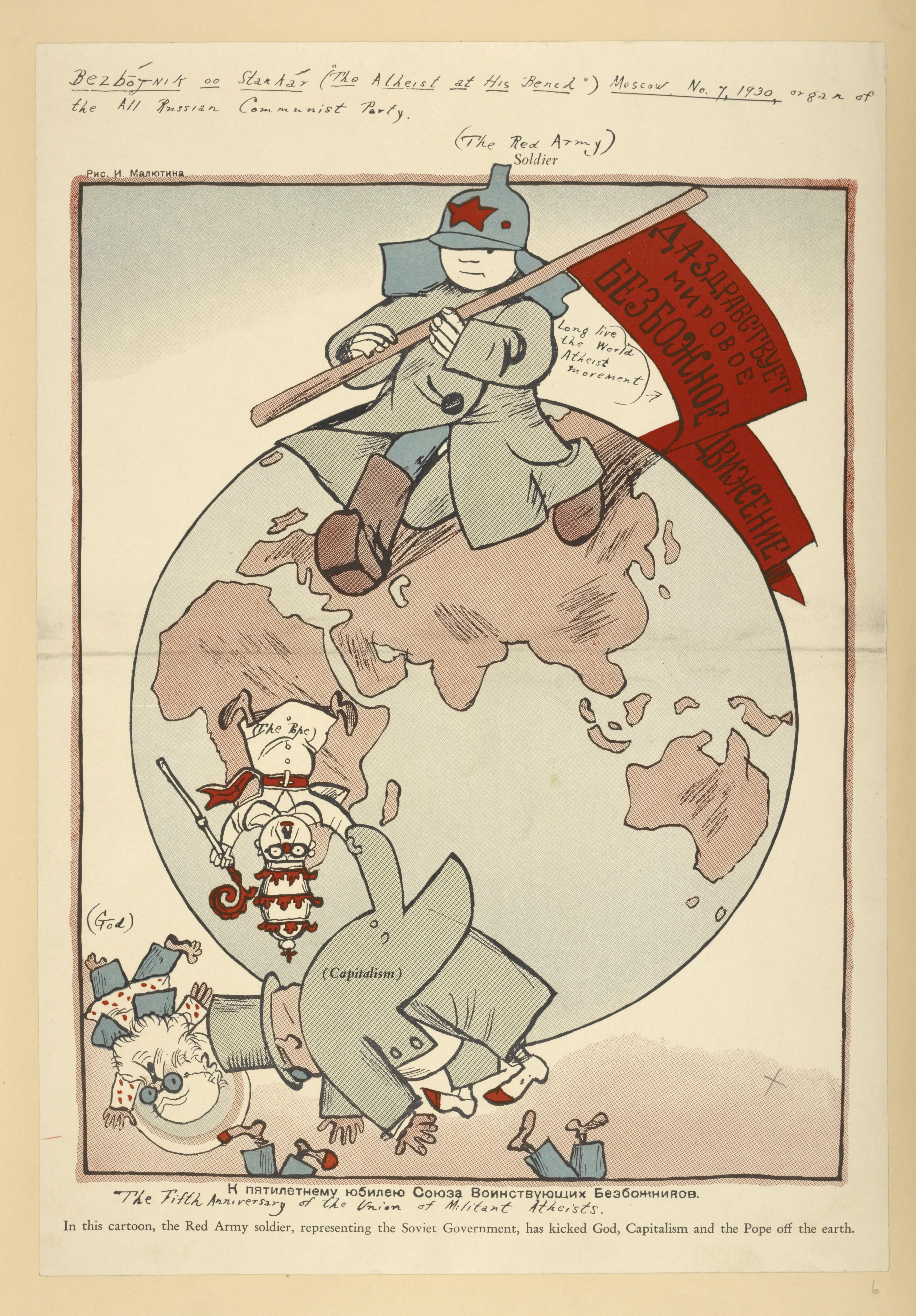 Cover of Bezbozhnik, 1920s-1930s Soviet atheist magazine Bezbozhnik u stanka - The Fifth Anniversary of the Union of Militant Atheists